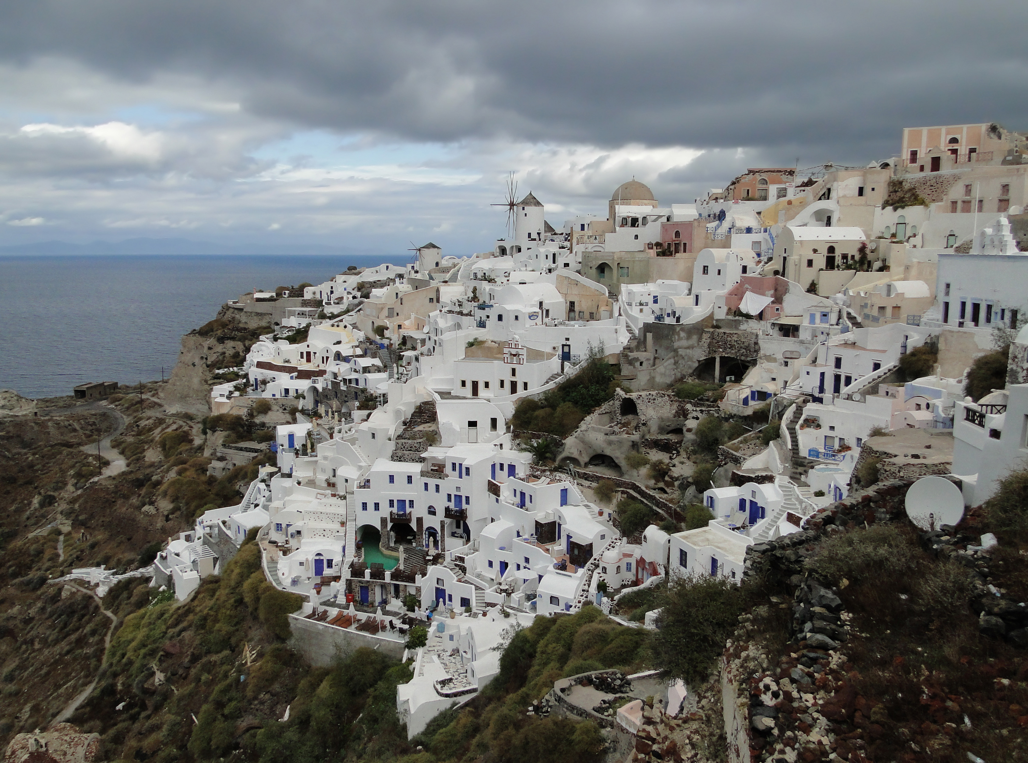 View of Oia, Santorini, Greece